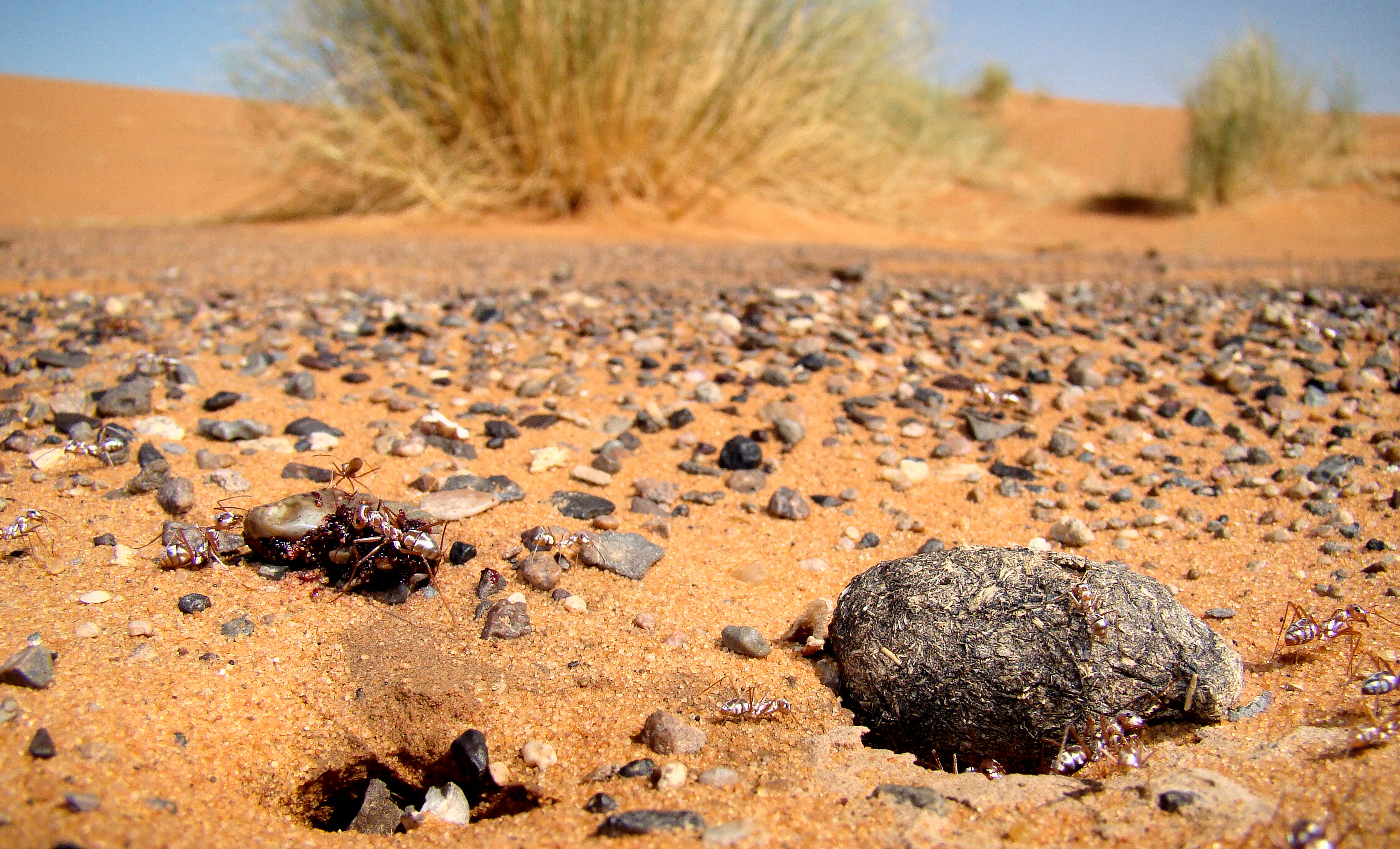 A Saharan silver ant nest in Erg Chebbi, Morocco. Outside the nest some ants are feasting on a camel tick. At the entrance to the nest is a piece of dry camel dropping.